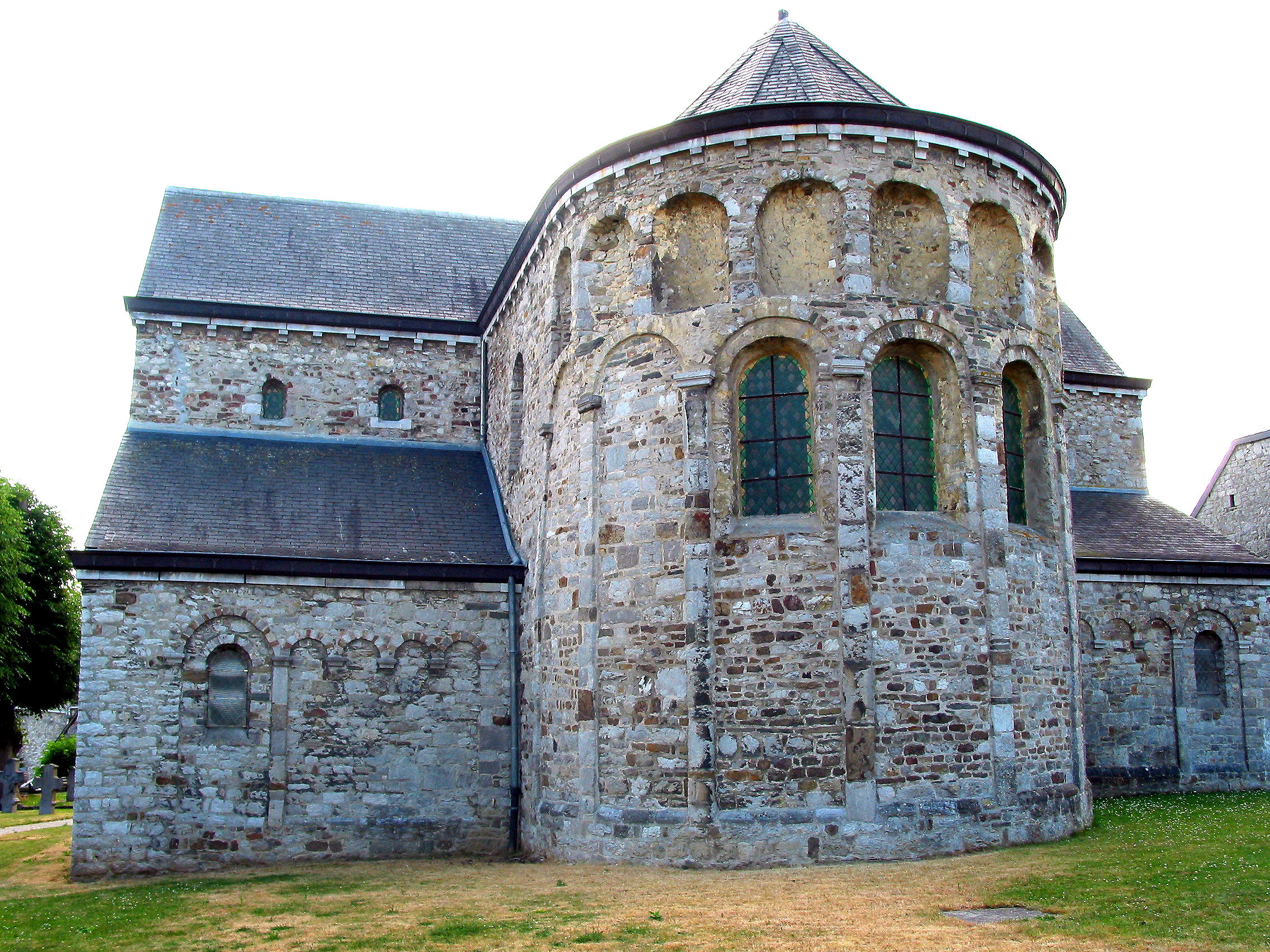 Xhignesse, apse and right transep of the Saint Peter's church (end of the XIth century).